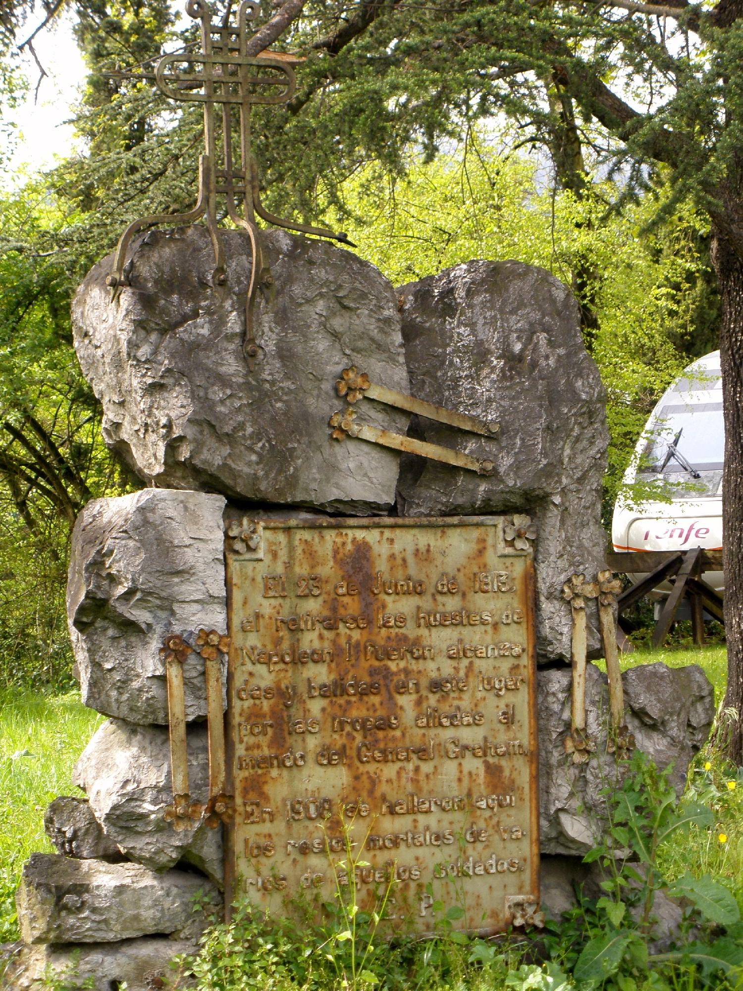 Memorial de los soldados franceses en retirada alcanzados y muertos por las tropas aliadas al mando del general Graham en Beasain, el 23 de junio de 1813. Beasain (Guipúzcoa, País Vasco, España)